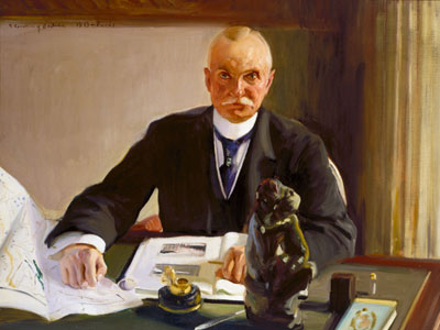 Thomas Fortune Ryan (1851–1928).